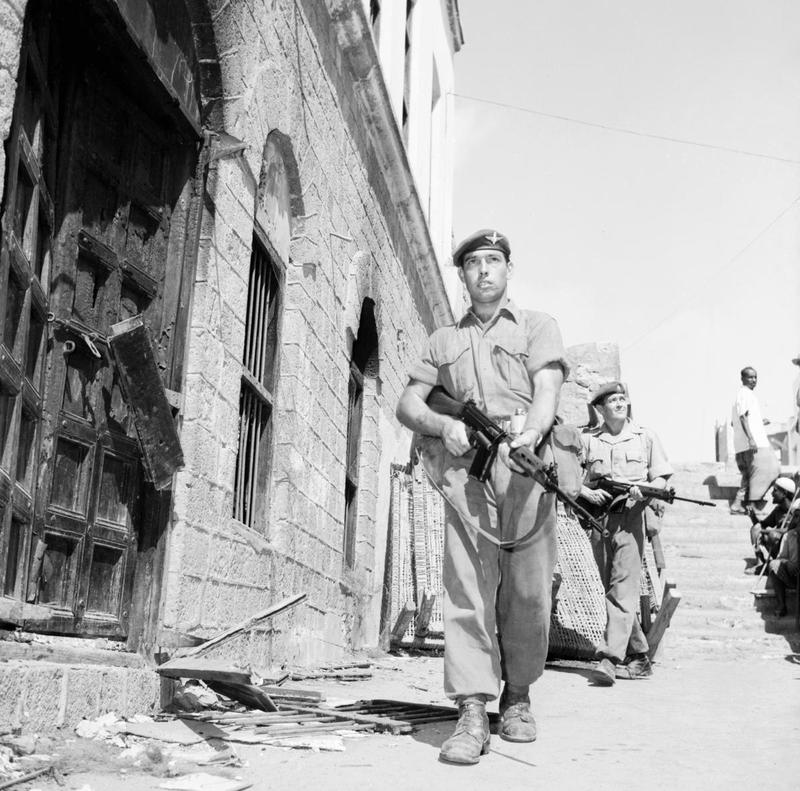 Terrorism in Aden: 1st Battalion, Parachute Regiment Lance Corporals, Michael Langdon (left) and David Mitchell patrolling outside the charred remains of the Jewish synagogue in the Crater area of Aden, which was set on fire during rioting.